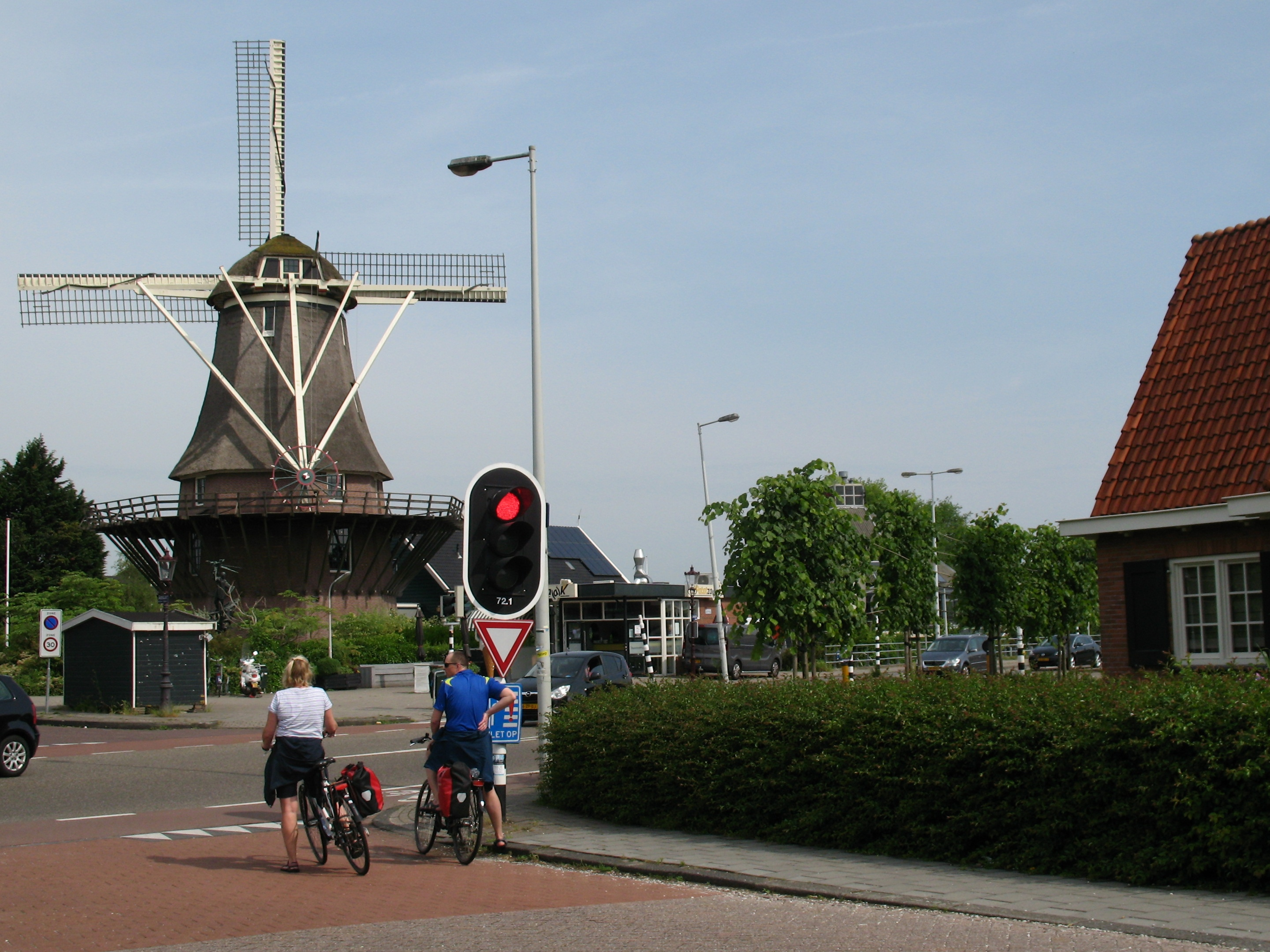 Distant view of the windmill